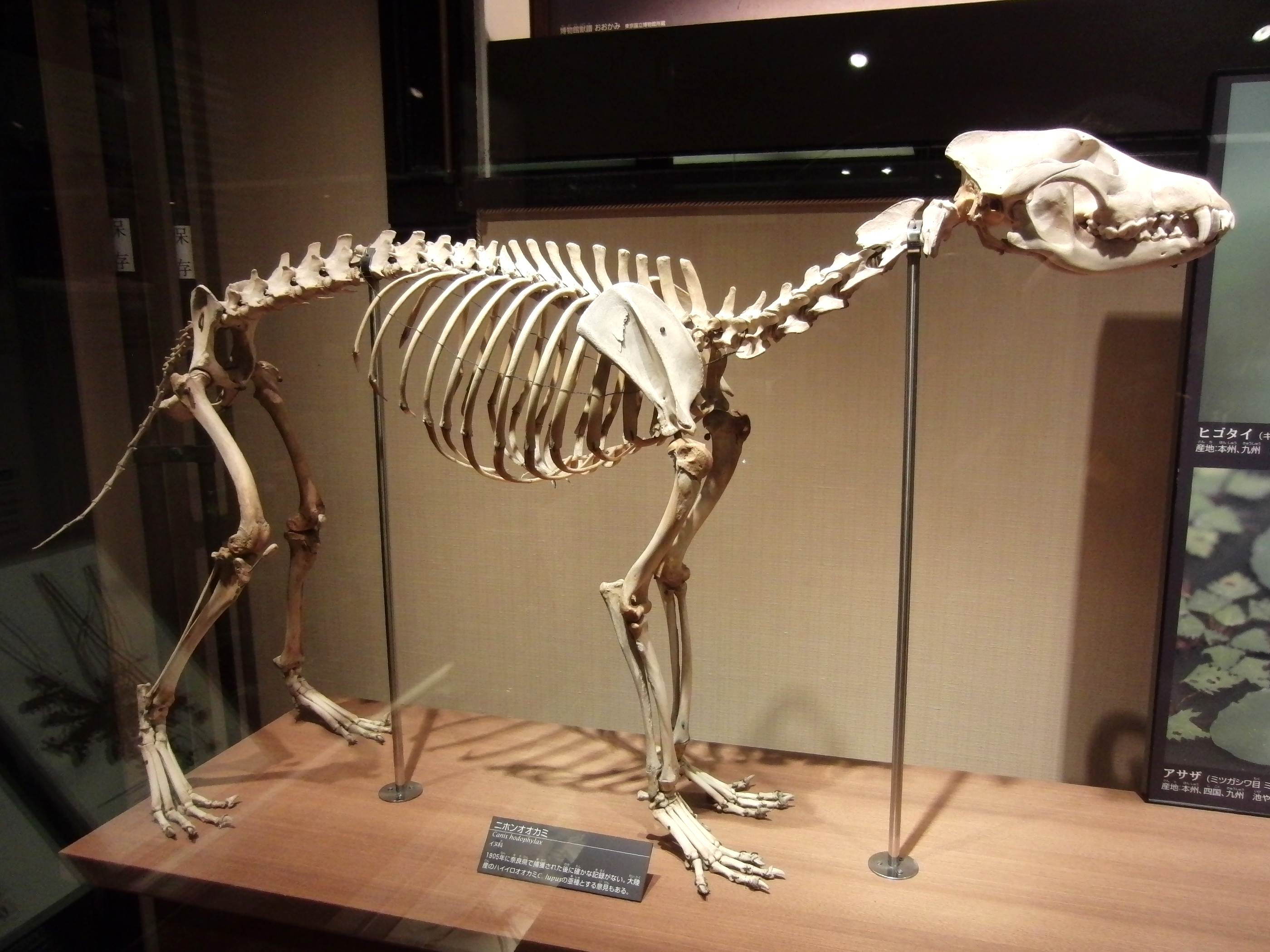 Skelton of Honshū wolf (Japanese Wolf). Exhibit in the National Museum of Nature and Science, Tokyo, Japan.